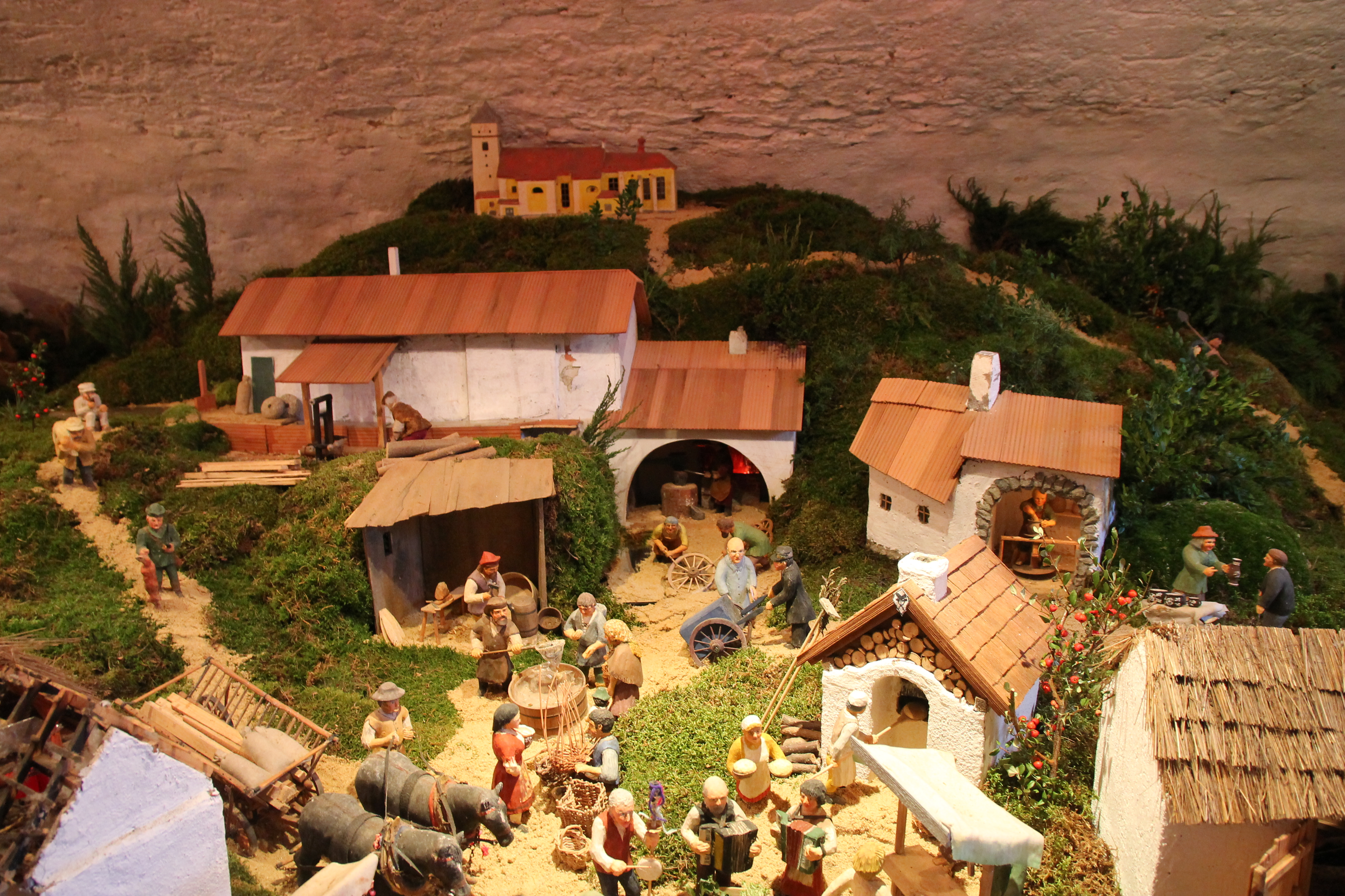 Rouha's Betlehem